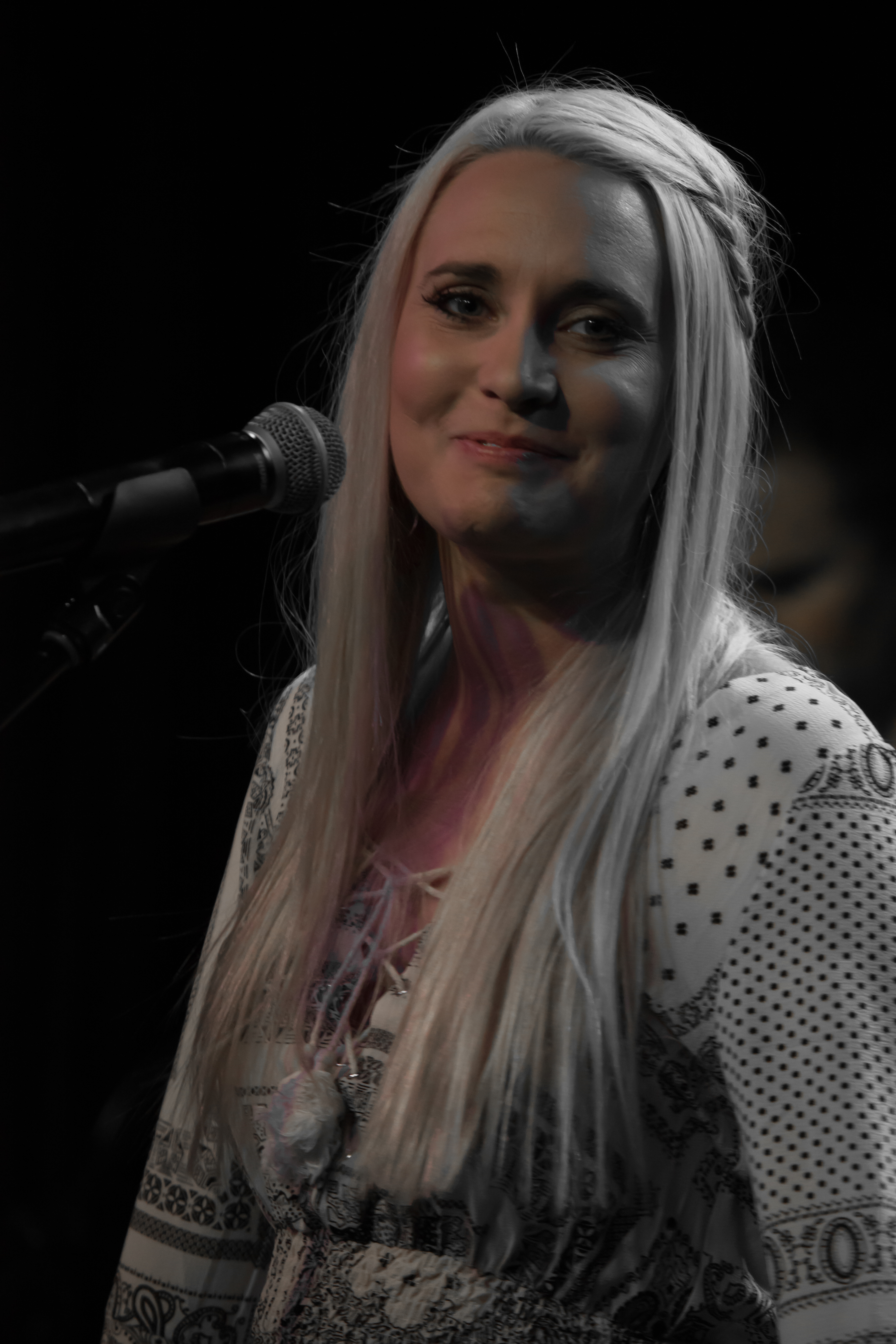 I, Michael Parker, took this photo of Aleyce Simmonds at the Girls of Country show at Rooty Hill RSL on August 20, 2016.